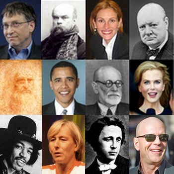 Twelve people who are left-hand. From left to right, up to down : Bill Gates, Paul Verlaine, Julia Roberts, Winston Churchill, Leonardo da Vinci, Barak Obama, Sigmund Freud, Nicole Kidman, Jimi Hendrix, Martina Navrátilová, Lewis Carroll, Bruce Willis.